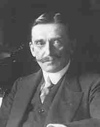 Zdzisław Lubomirski, Polish aristocrat and politician